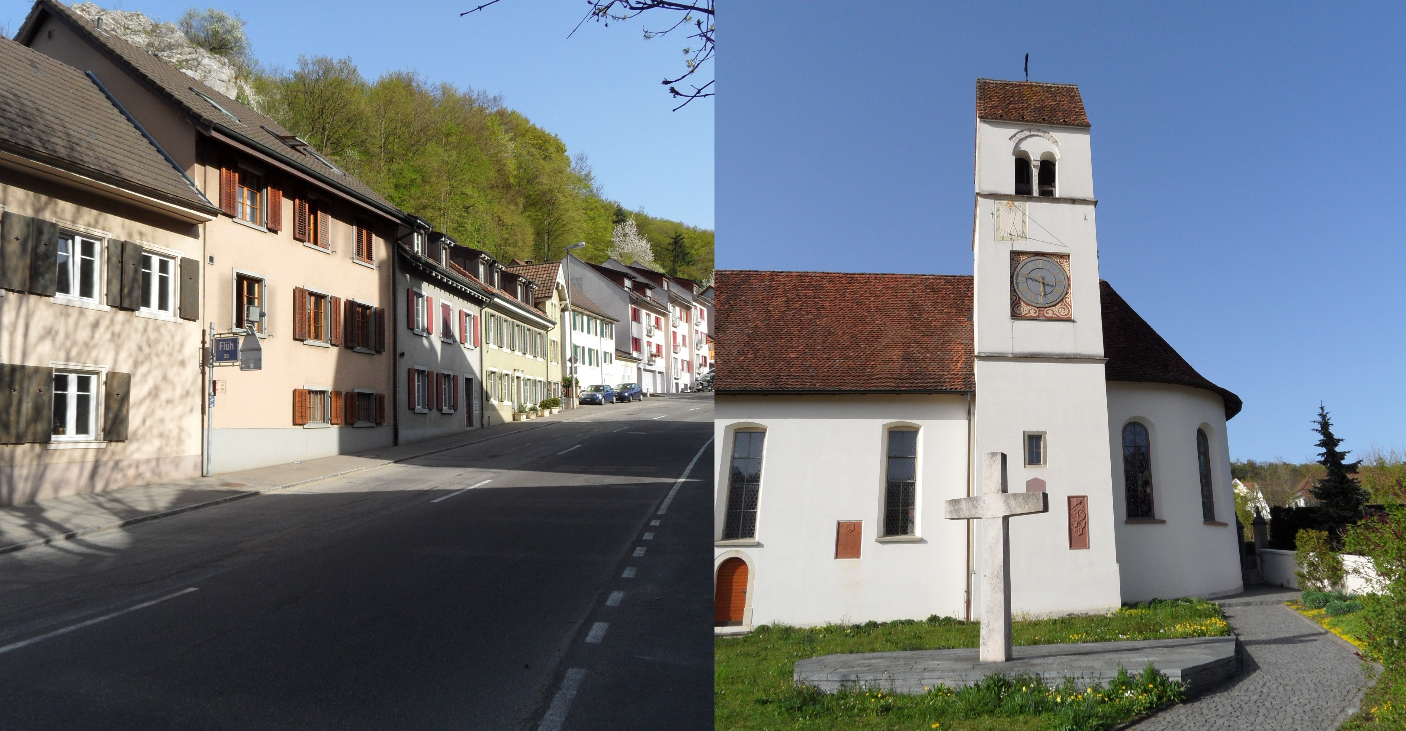 Community of Hofstetten-Flüh, Canton of Solothurn, Switzerland: Street in Flüh and church of Hofstetten.